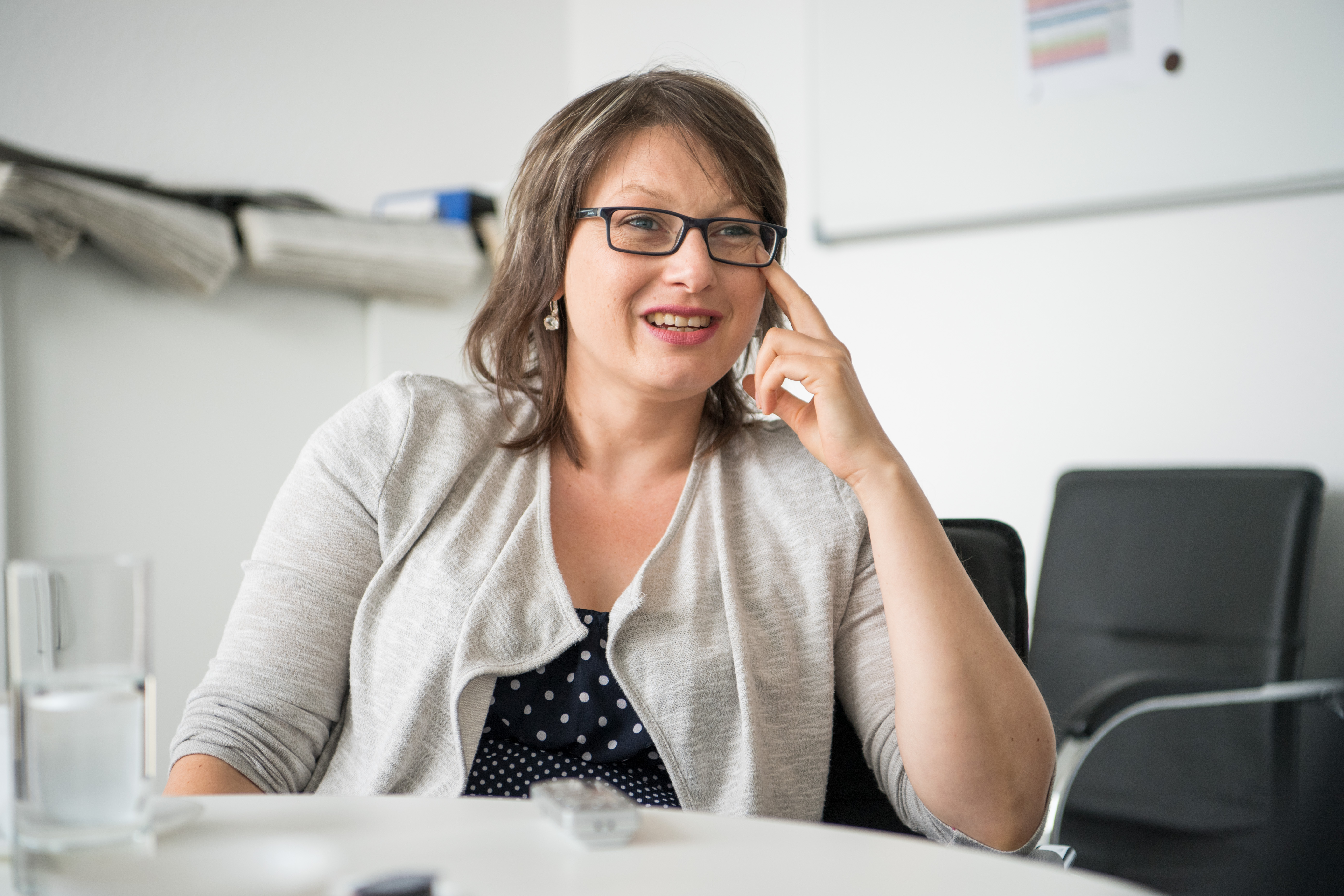 The German politician Dr Katja Pähle (SPD), member of Landtag in Saxony-Anhalt